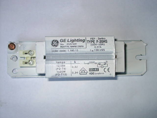 New coil ballast for 18W or 20W lamps